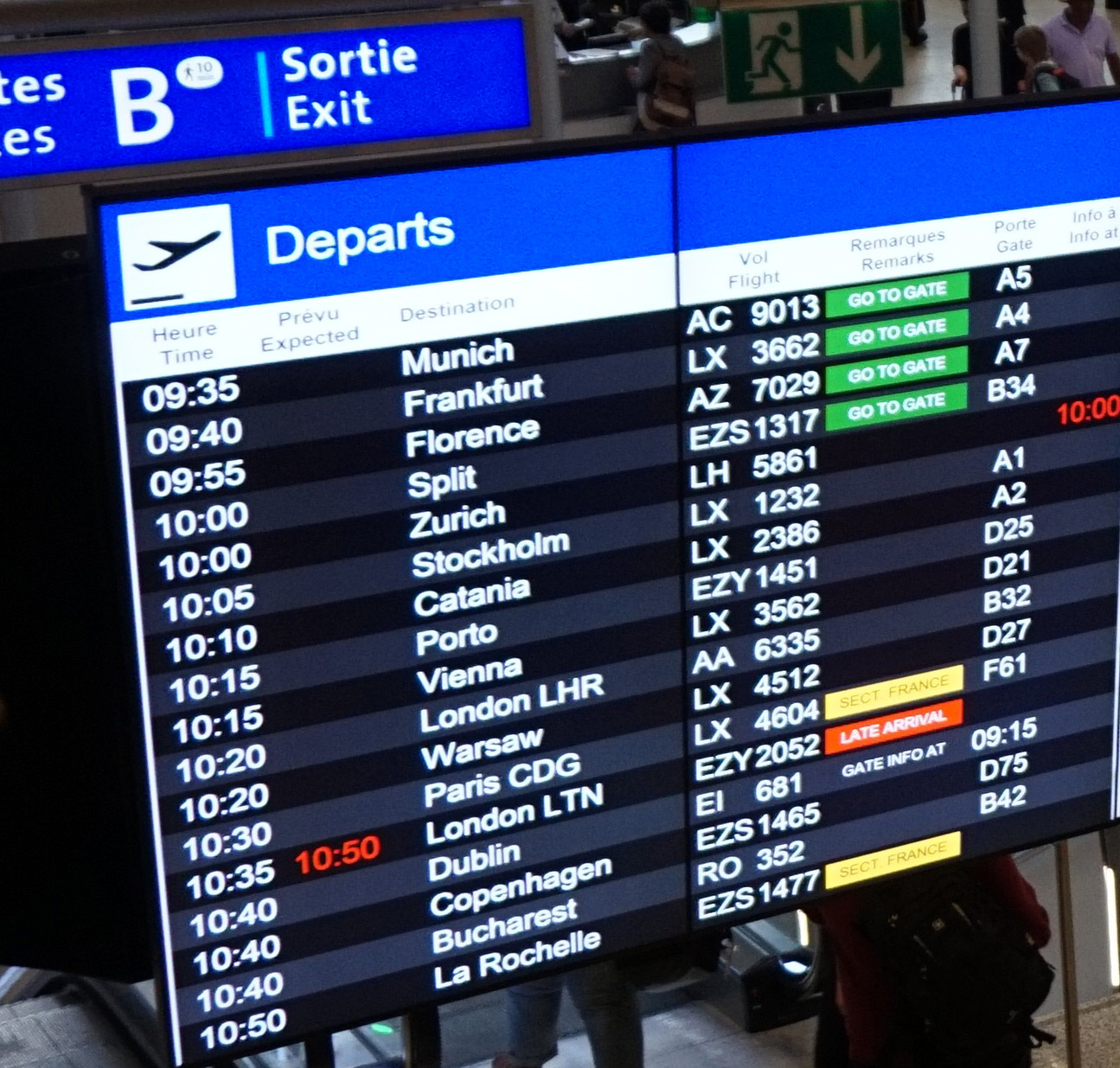 Departure schedule in Geneva airport.This photograph was taken with a Sony ILCE-5000